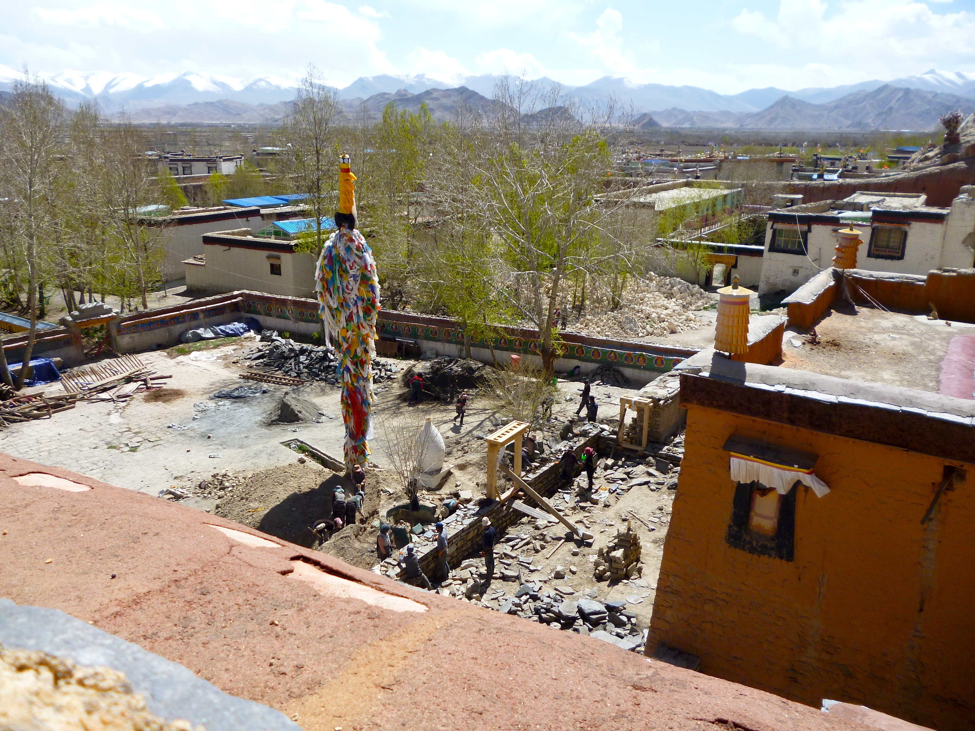 Restaurations at Pelkor Monastery